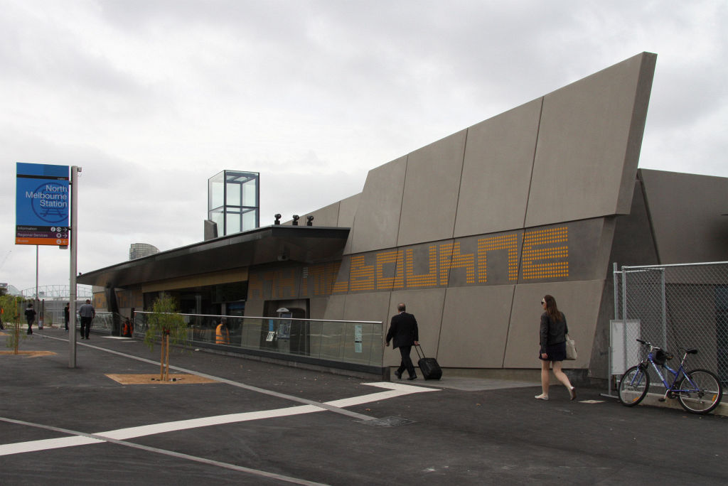 North Melbourne station main entry, of the new southern concourse